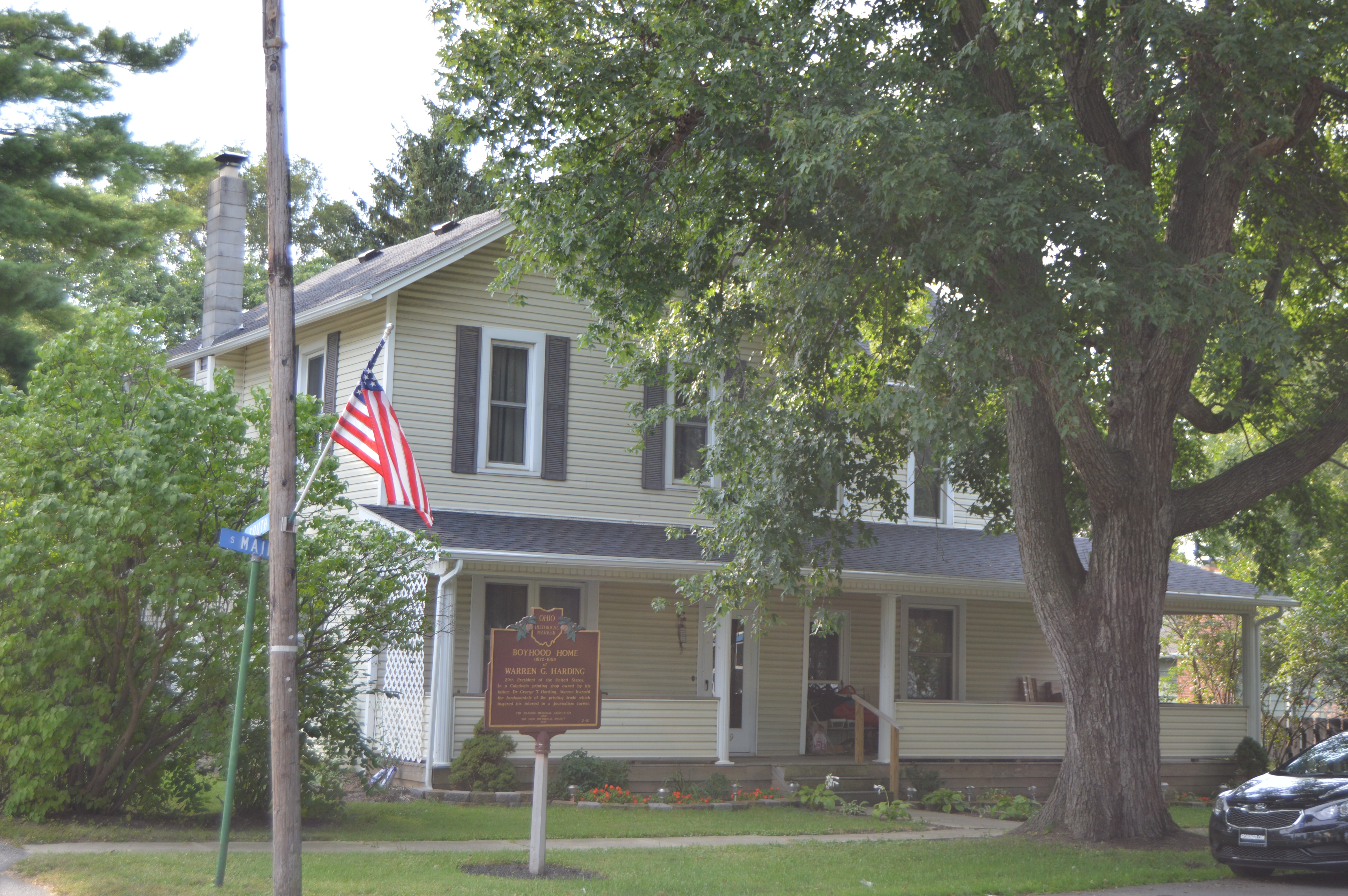 Front and southern side of the childhood home of Warren G. Harding, located on the northwestern corner of the junction of South and Main Streets in Caledonia, Ohio, United States.